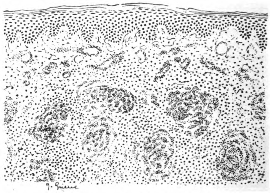 Figure 42. Lupus vulgaris simplex. The corium is studded with little collections of tuberculous follicles which make up the apple-jelly nodules. The vessles are dilated and the tissues between the nodules contain many leuocytes. Teh epithelium is slightly cedematous and the horny layer is irrefular. 75x